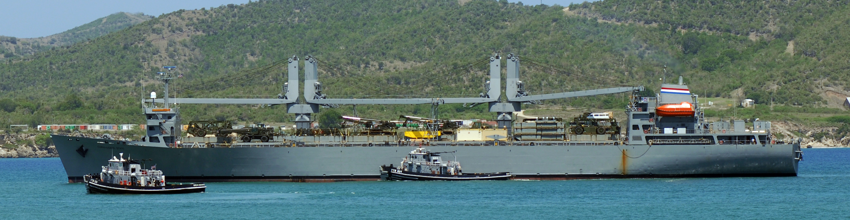 The Military Sealift Command crane ship SS Cornhusker State (T-ACS 6) arrives at U.S. Naval Station Guantanamo Bay for the exercise Joint Logistics Over The Shore (JLOTS) 09.